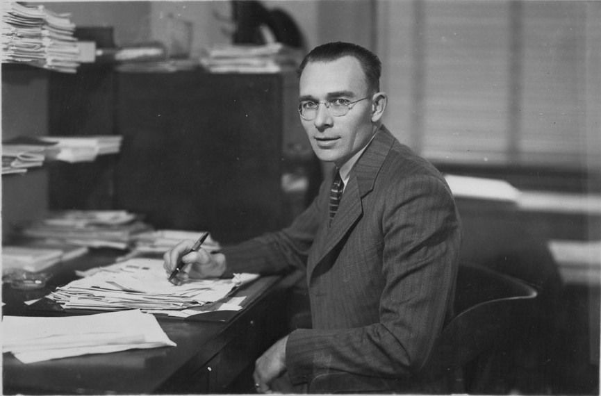 Bona Arsenault Credit Line: Arthur Roy. Arthur Roy fonds. Library and Archives Canada, a047045 / Arthur Roy. Fonds Arthur Roy. Bibliothèque et Archives Canada, a047045